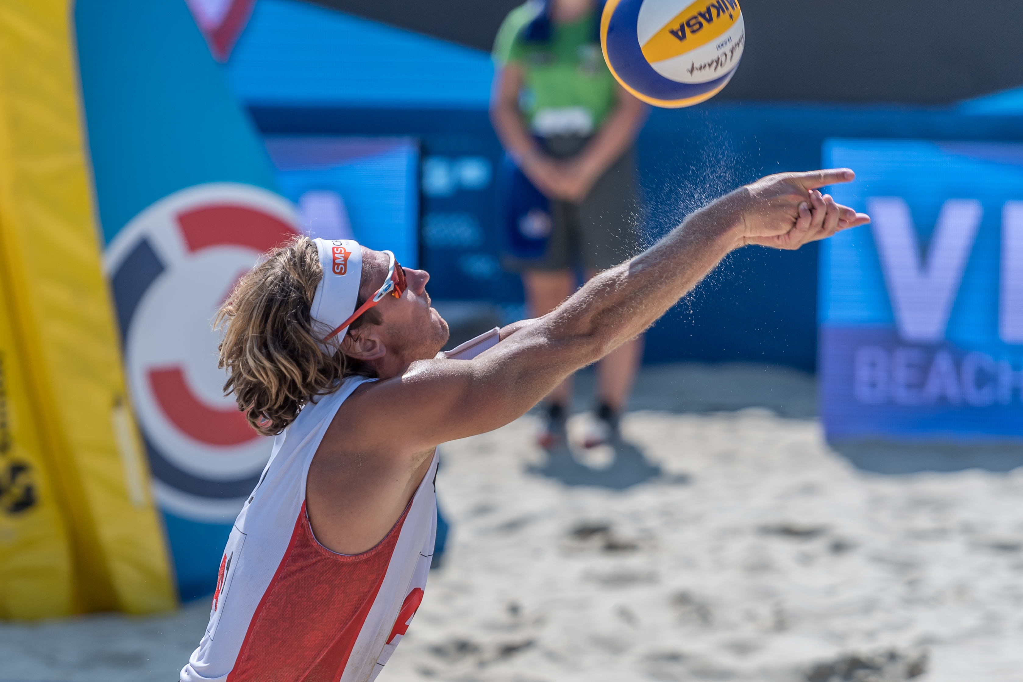 VIENNA, AUSTRIA - AUGUST 04: Aleksandrs Samoilovs of Latvia during the round of 16 match between Aleksandrs Samoilovs and Janis Smedins of Latvia and Clemens Doppler and Alexander Horst of Austria on day four of the FIVB Beach Volleyball World Tour Major Series Vienna on Danube Island on August 04, 2018 in Vienna, Austria.